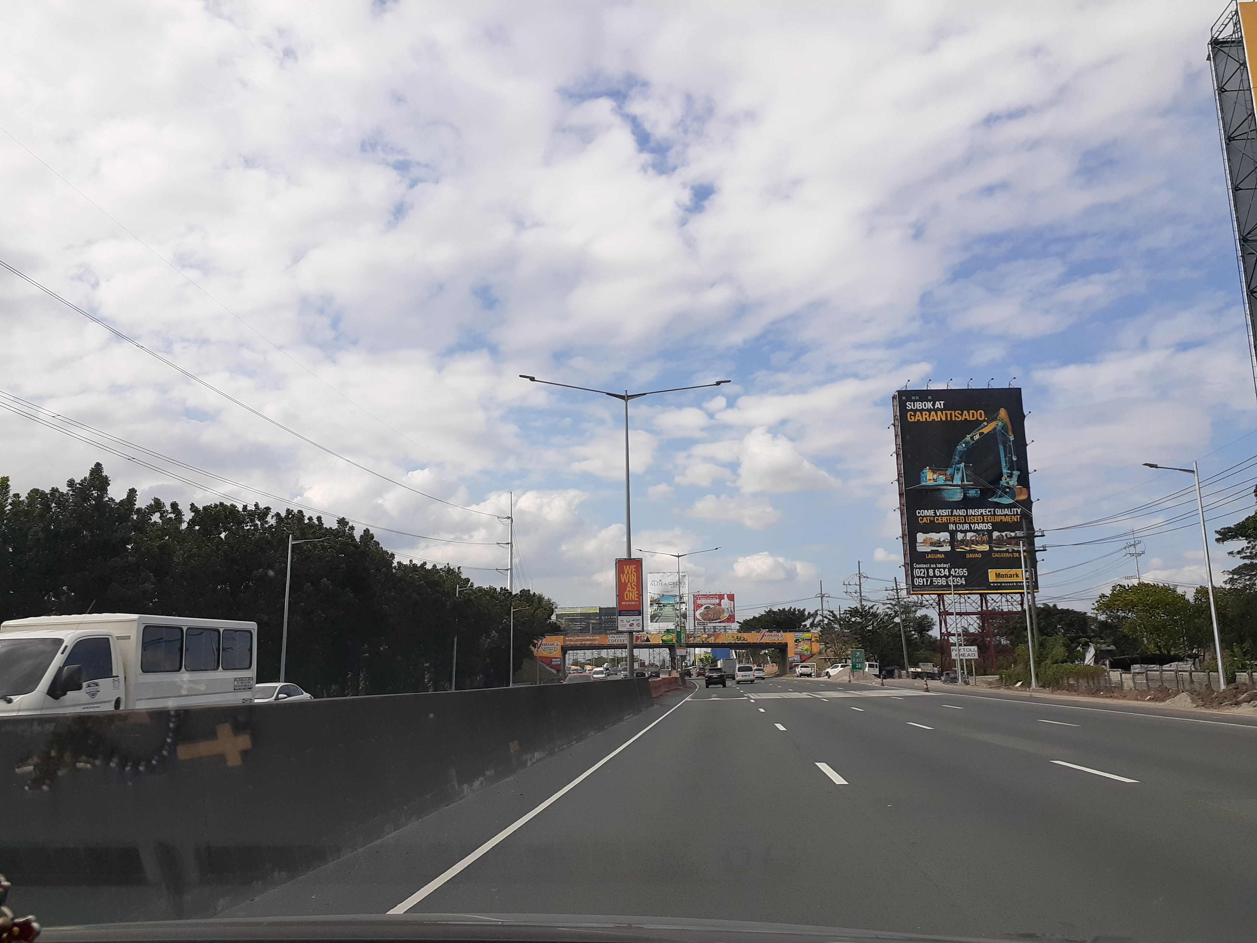 North Luzon Expressway. Northbound near Brgy. Taal, Bocaue. The new Tambubong Interchange (or Tambubong Exit) can be seen in the distance.